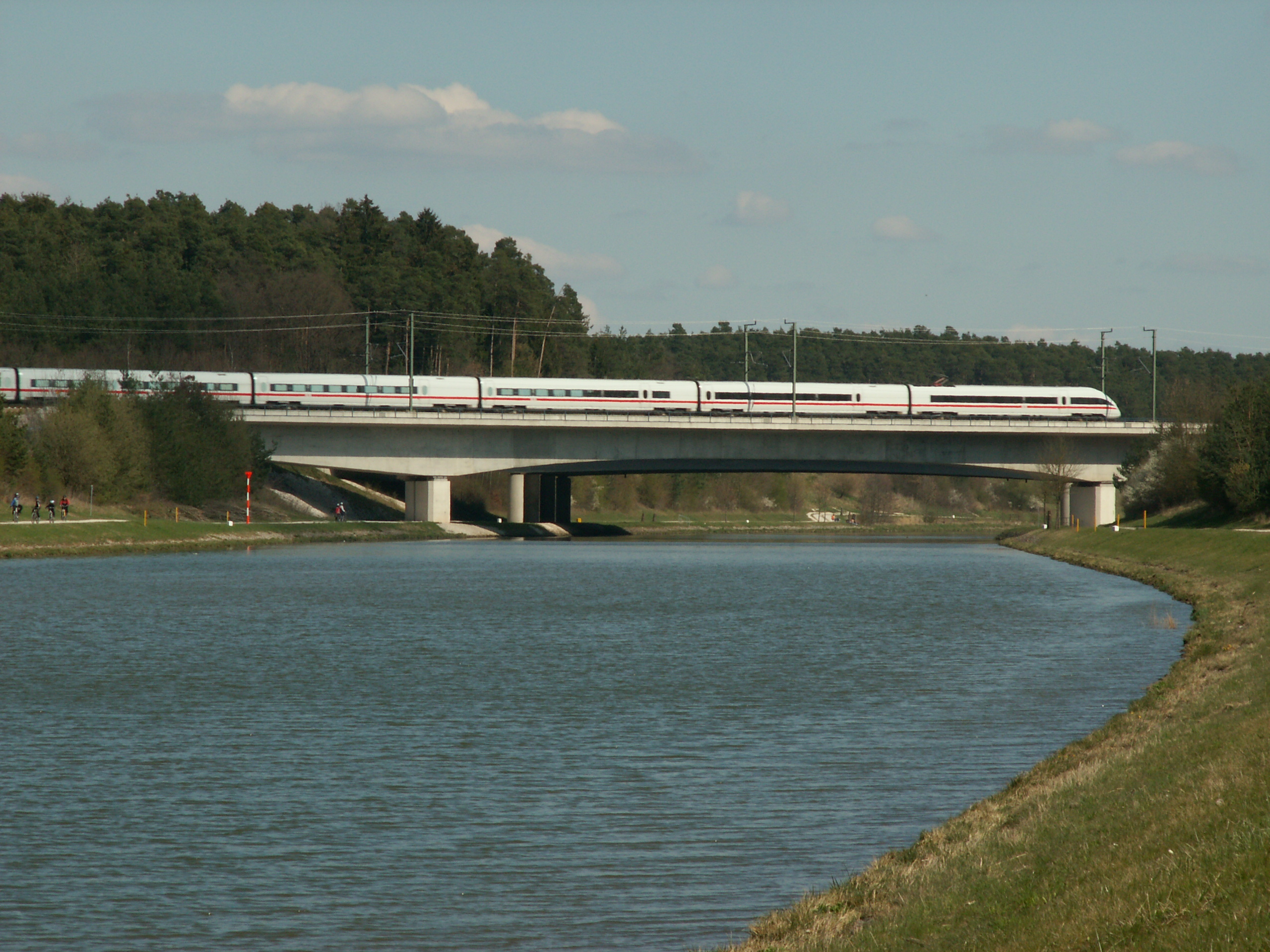 The Rhine-Main-Danube Canal bridge of the Nuremberg-Ingolstadt high-speed railway line